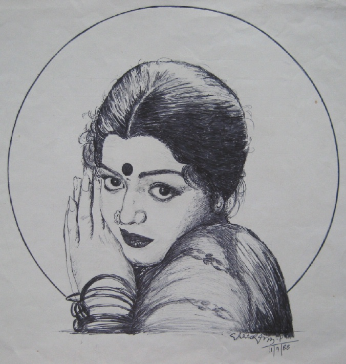 Portrait of Bhanu Priya - Telugu movie actress